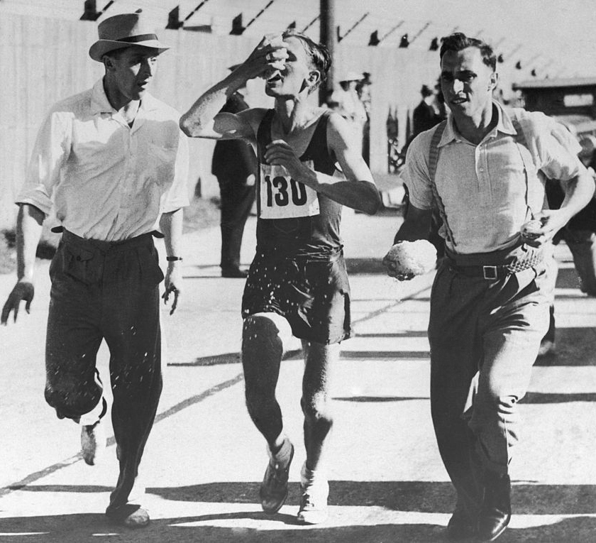 Jackie Gibson of South Africa refreshes himself during the marathon event at the British Empire Games (later the Commonwealth Games) in Sydney, 1938. He came third, taking the bronze medal.